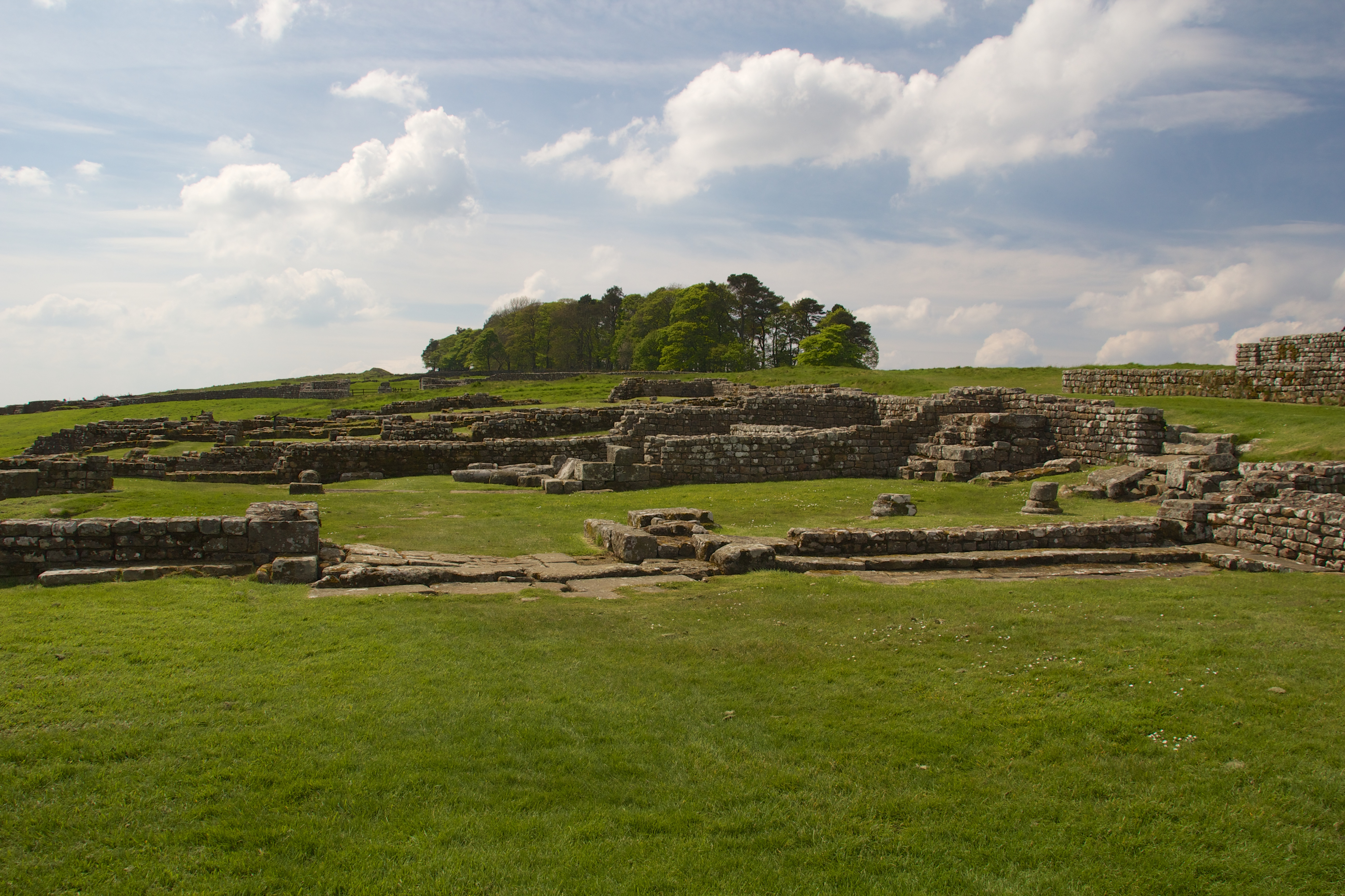 Principia (Headquarters Building) at Housesteads Roman Fort on Hadrian's Wall.